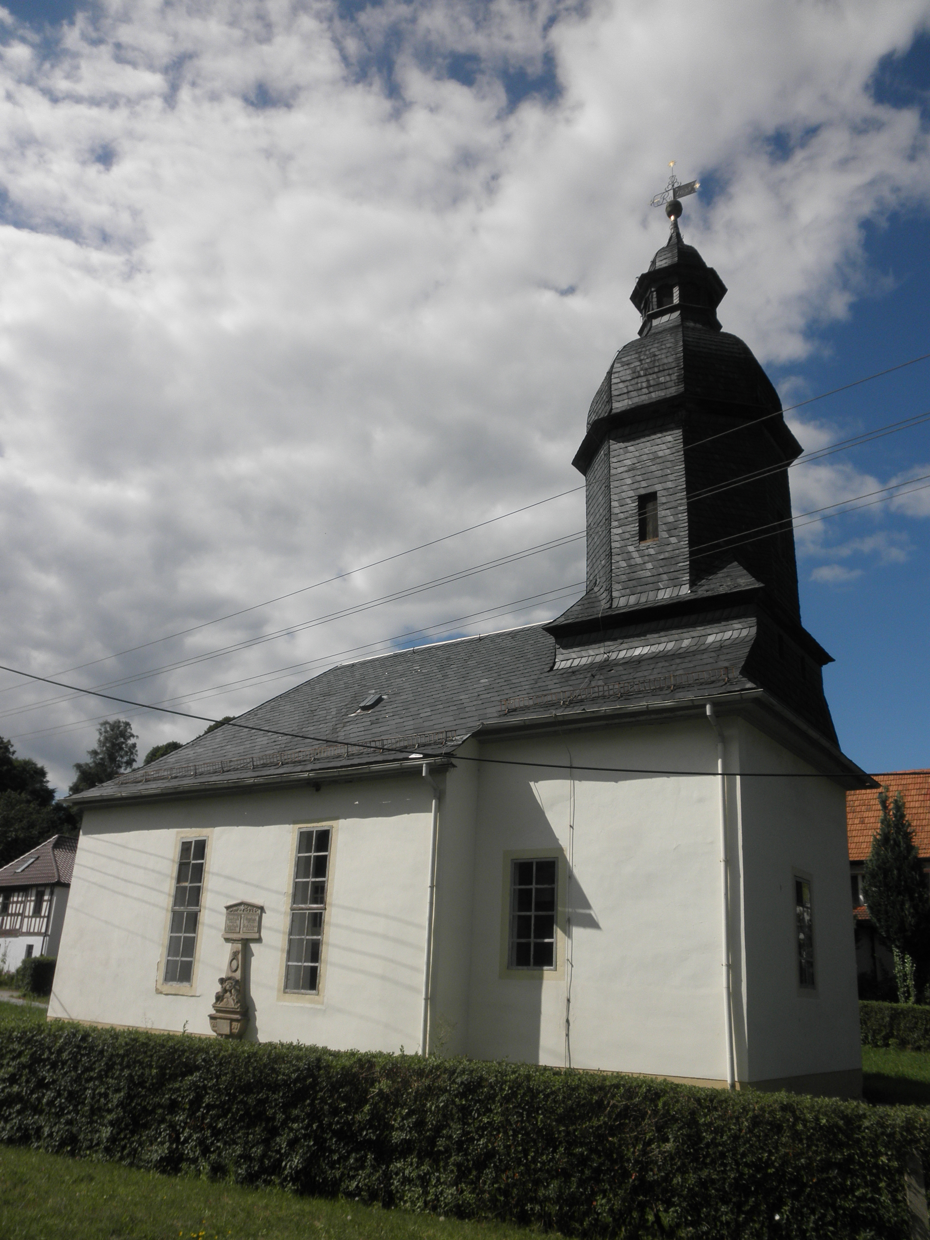 Church in Rattelsdorf (Thüringen) in Thuringia